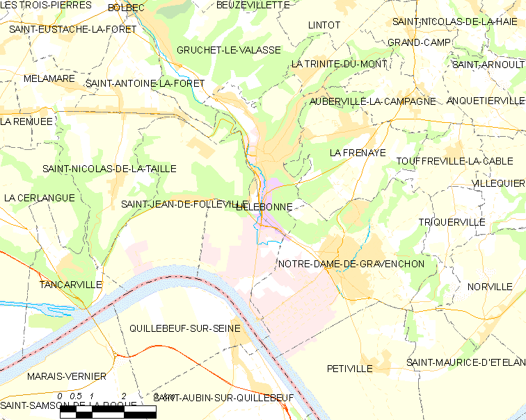 Map of French municipality Lillebonne